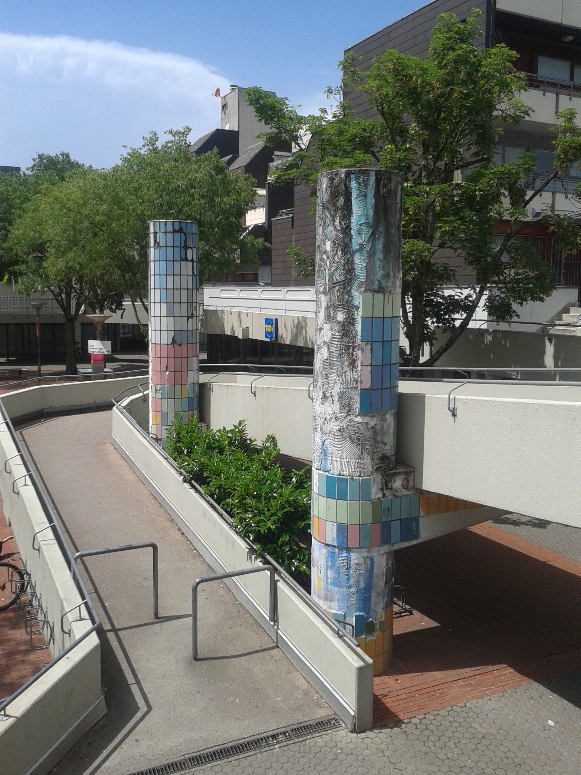 Bernhard Härtter - Glücksrampe - Sculpture in Freiburg-Weingarten